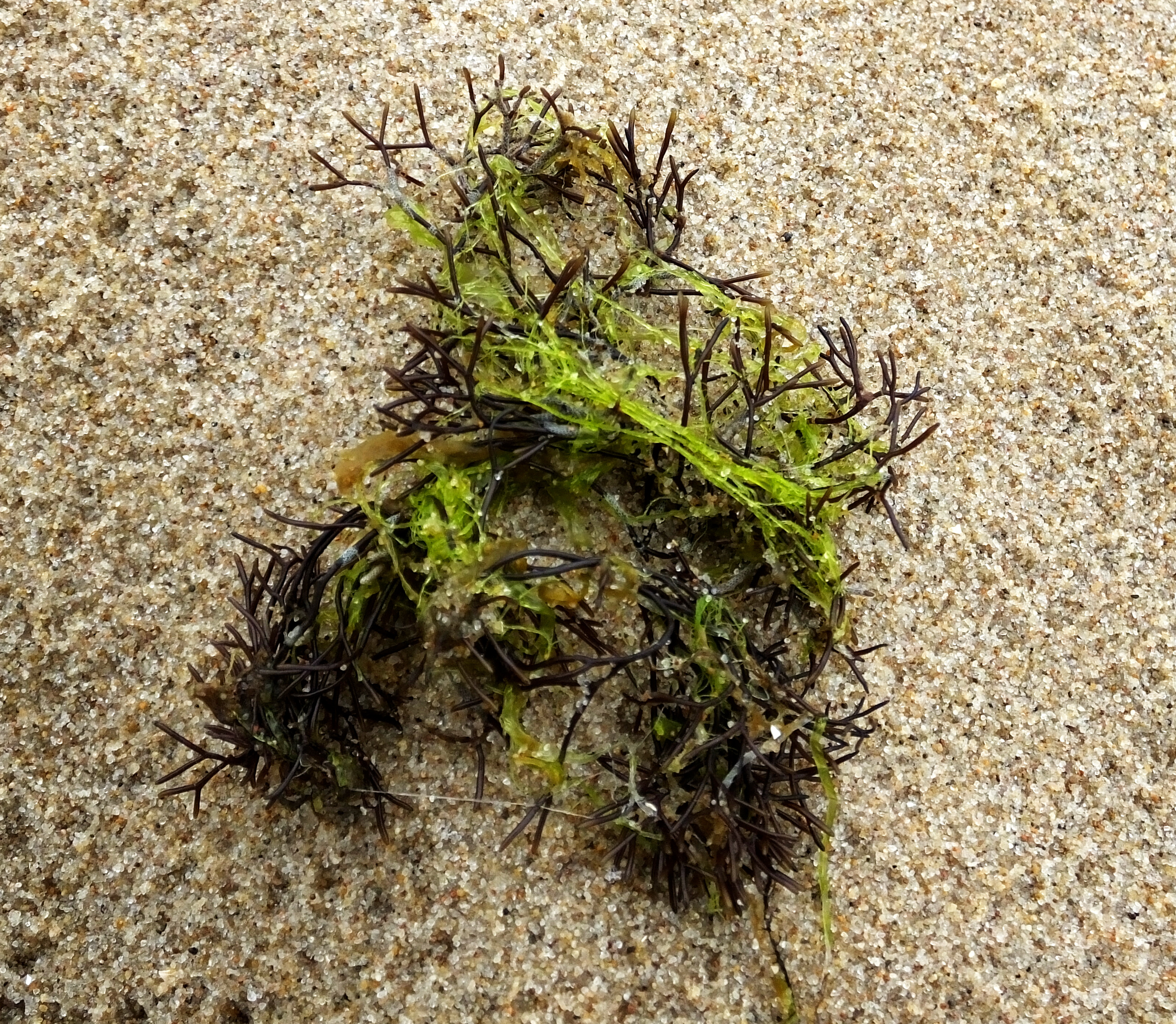 Furcellaria lumbricalis (with Enteromorpha) at Baltic shore in Poland